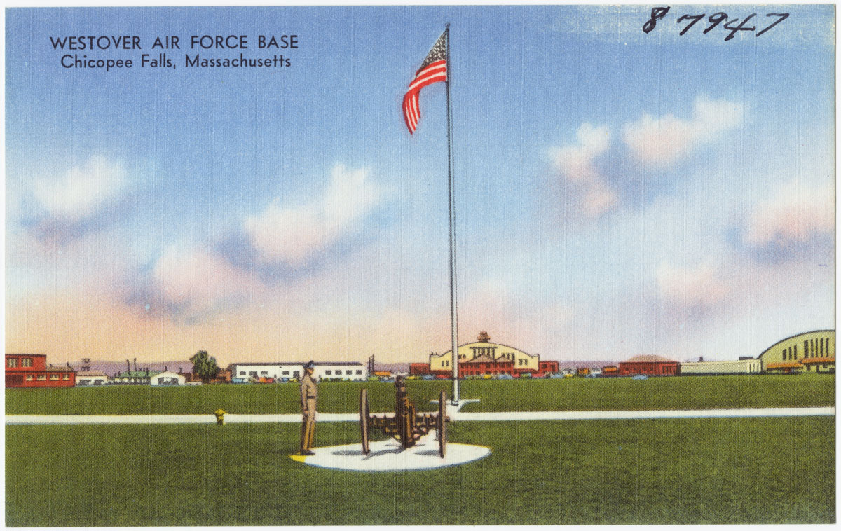 Westover Air Force Base, Chicopee Falls, Mass.